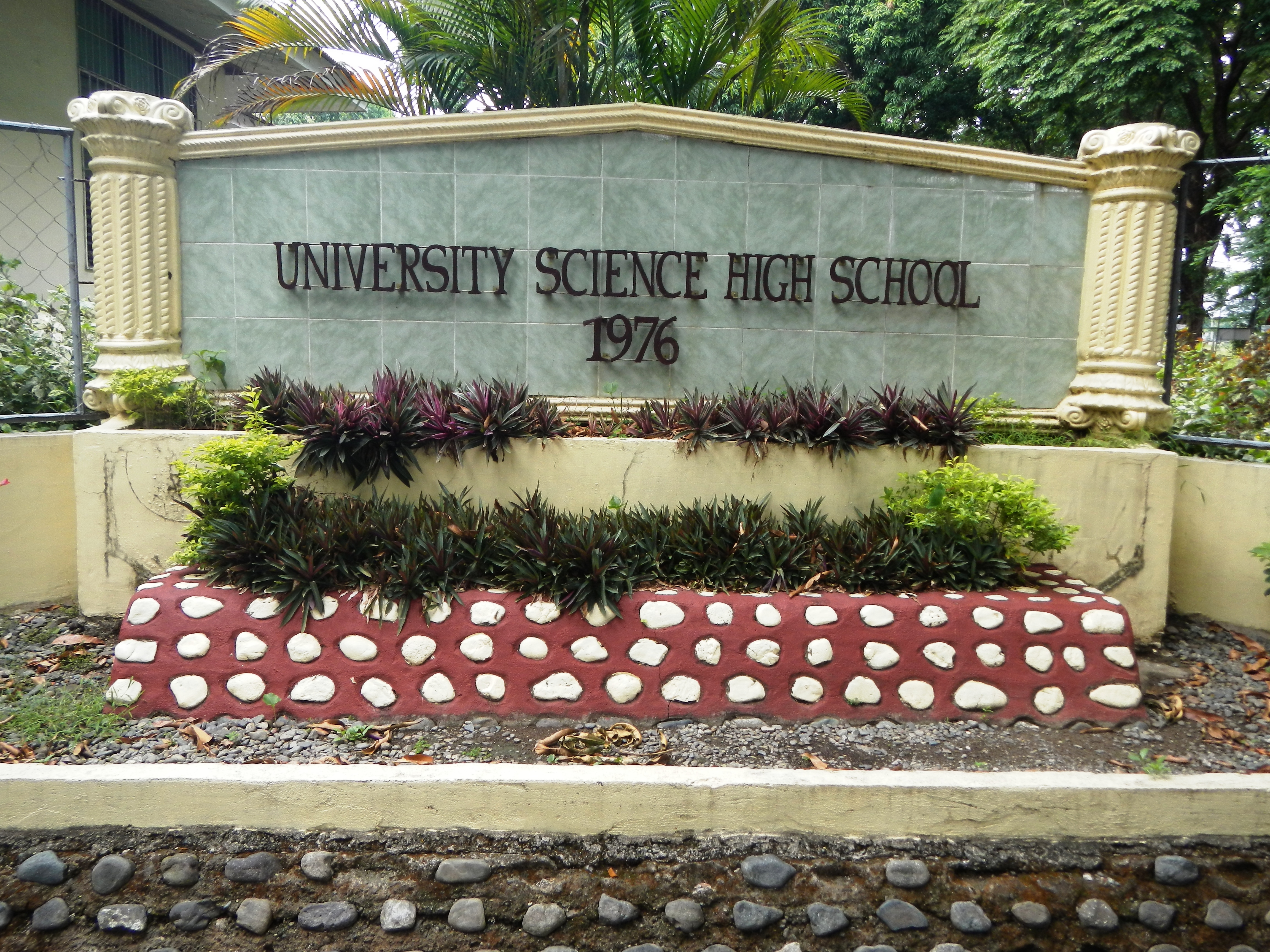 Central Luzon State University Science High School Website Central Luzon State University Muñoz, Nueva Ecija Science City of Muñoz, Nueva Ecija, Philippines.